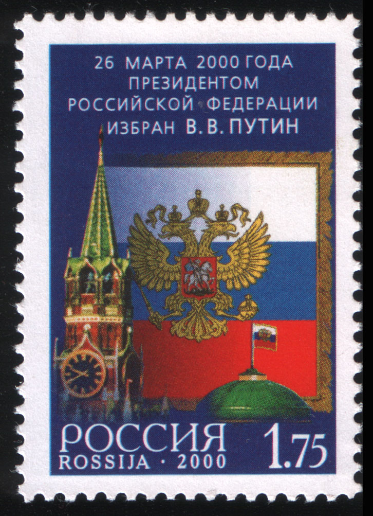 V.V.Putin is elected President of the Russian Federation on March 26, 2000